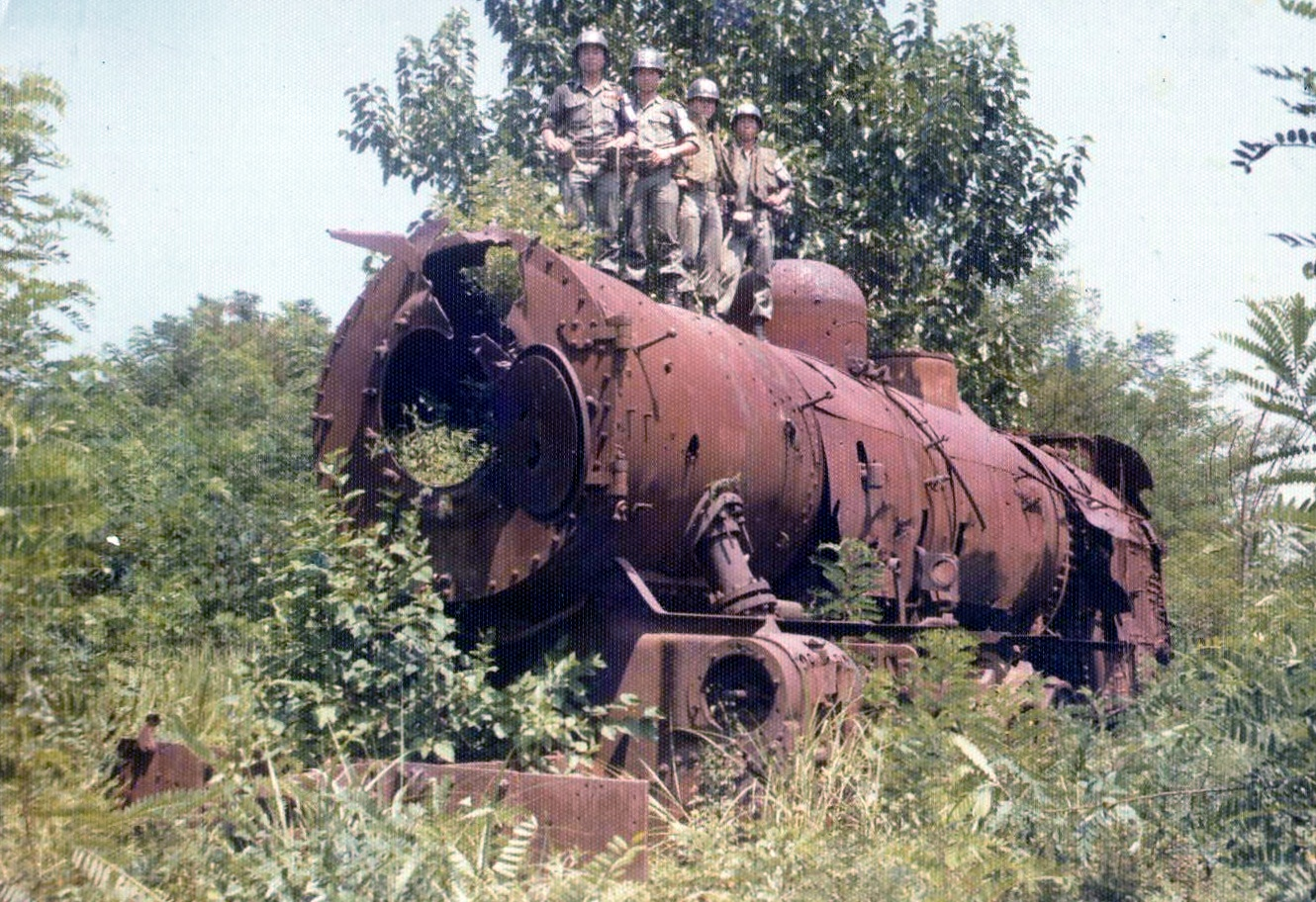 A steam locomotive broken nearby Jangdan station which is located at DMZ. Now it is exhibited at Imjingak.